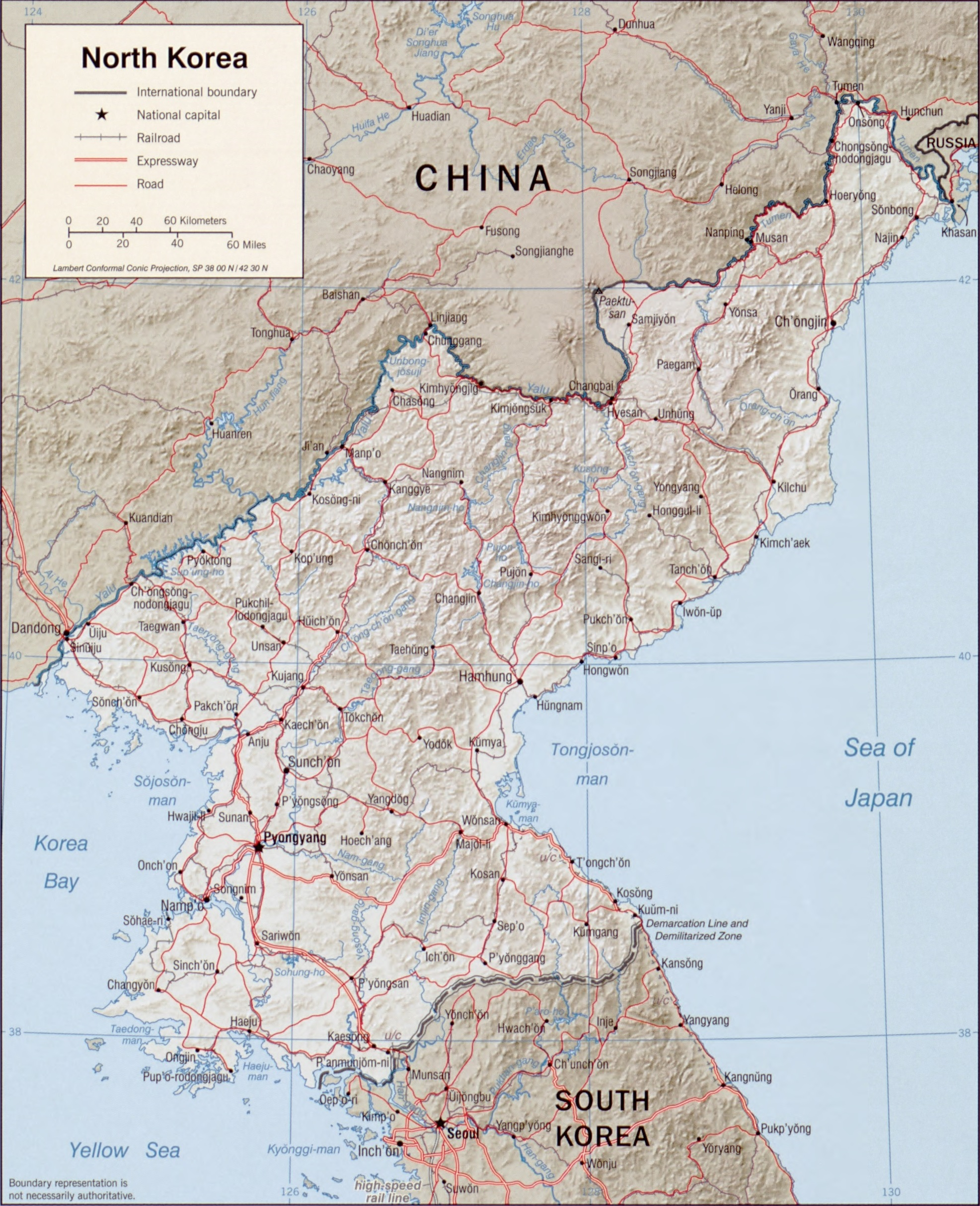 Notes - Relief shown by shading. - "Base 803022AI (C00700) 5-05." - Available also through the Library of Congress Web site as a raster image. Medium 1 map : col. ; 21 x 17 cm. Call Number/Physical Location G7905 2005 .U51 Repository Library of Congress Geography and Map Division Washington, D.C. 20540-4650 USA dcu Digital Id Library of Congress Control Number 2005632023